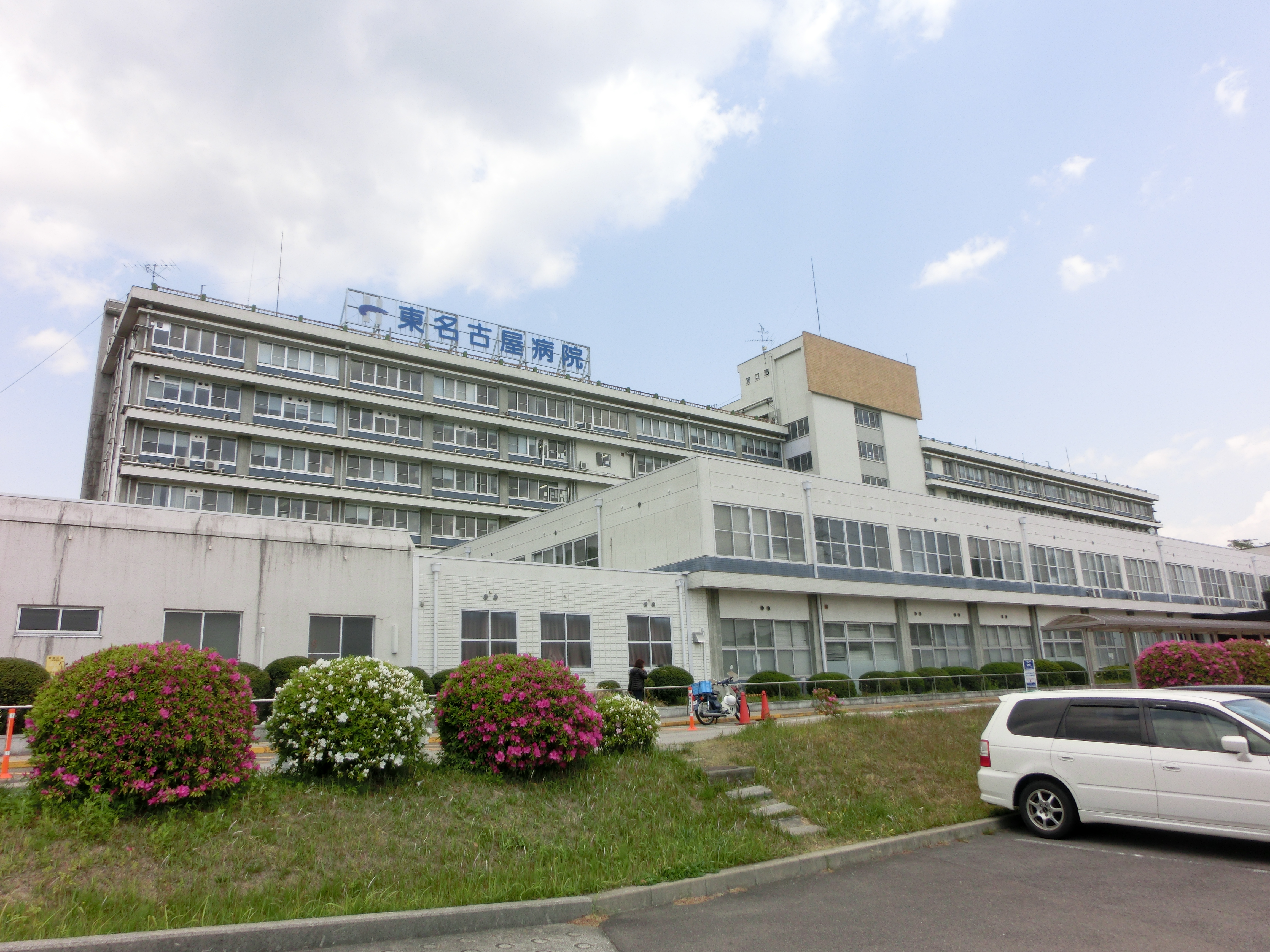 National Hospital Organization East Nagoya Hospital